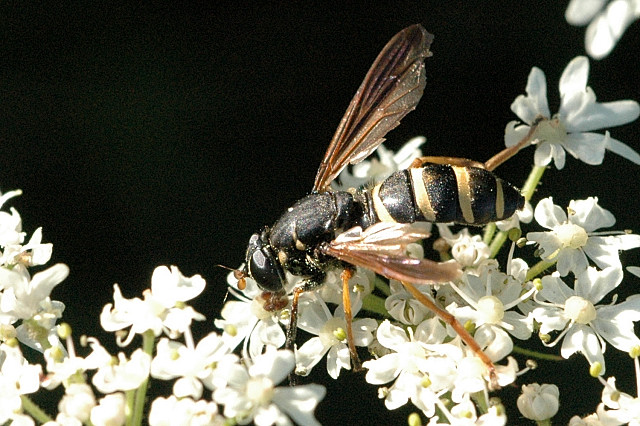 Picture taken in Commanster, Belgian High Ardennes . Species: Temnostoma bombylans